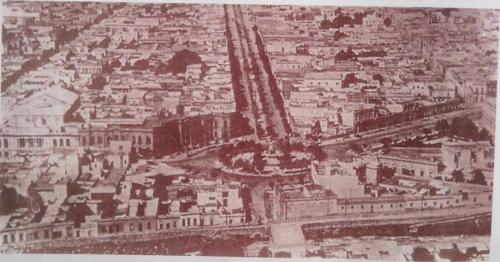 Aerial view of San Juan boulevard and Velez Sarsfield avenue. Note that The Glen is still tunneled by old masonry. Cordoba, Argentina.